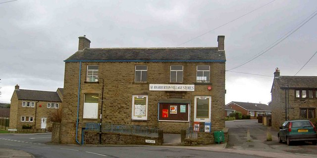 Highburton village stores